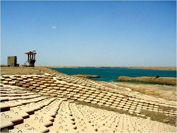 Upstream face of the Adhaim Dam in Iraq.